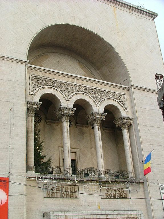 Timişoara opera